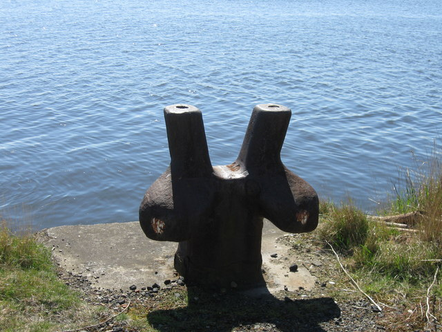 Bollard on the banks of the Tyne